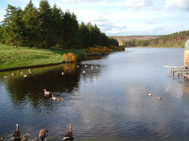 Cod Beck Reservoir